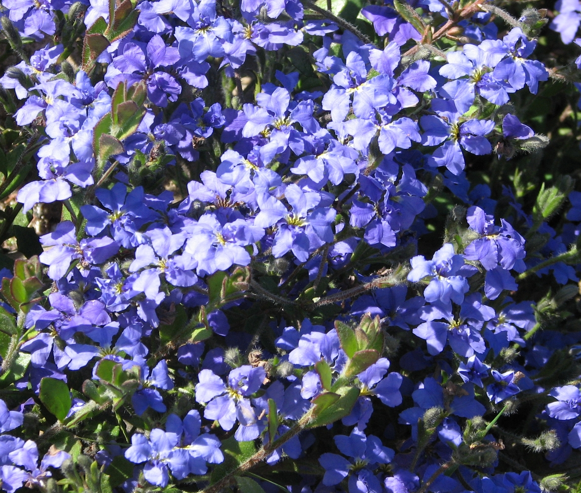 Dampiera linearis, Royal Botanic Gardens, Cranbourne, Victoria, Australia